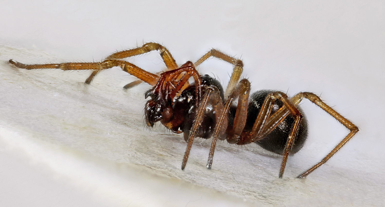 Erigone atra, Graig-fechan, North Wales, July 2015